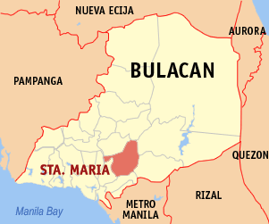 Map of Bulacan showing the location of Santa Maria